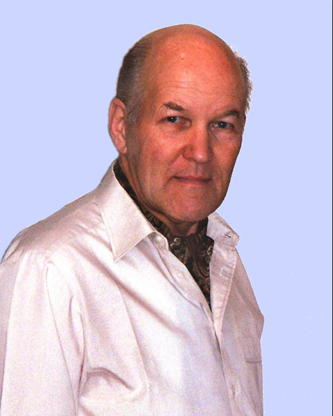 Portrait of Gerald A. Wingrove MBE